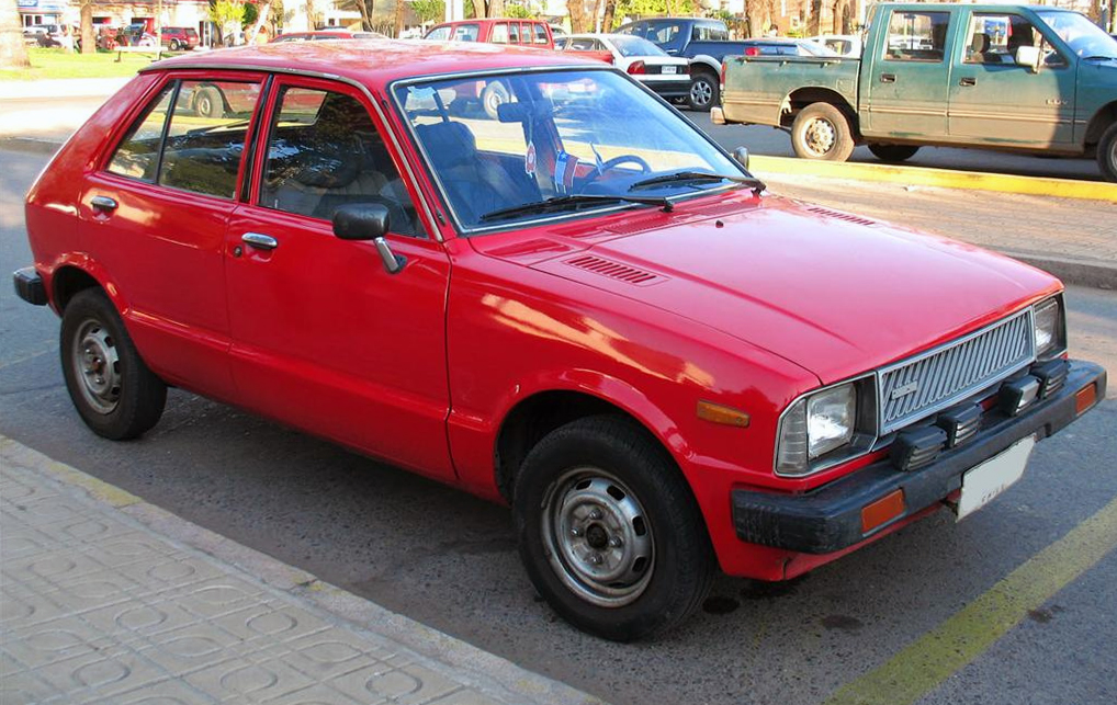 Daihatsu Charade G20 850 1982 - this is a special small-engined version sold only in a few markets, including Chile.